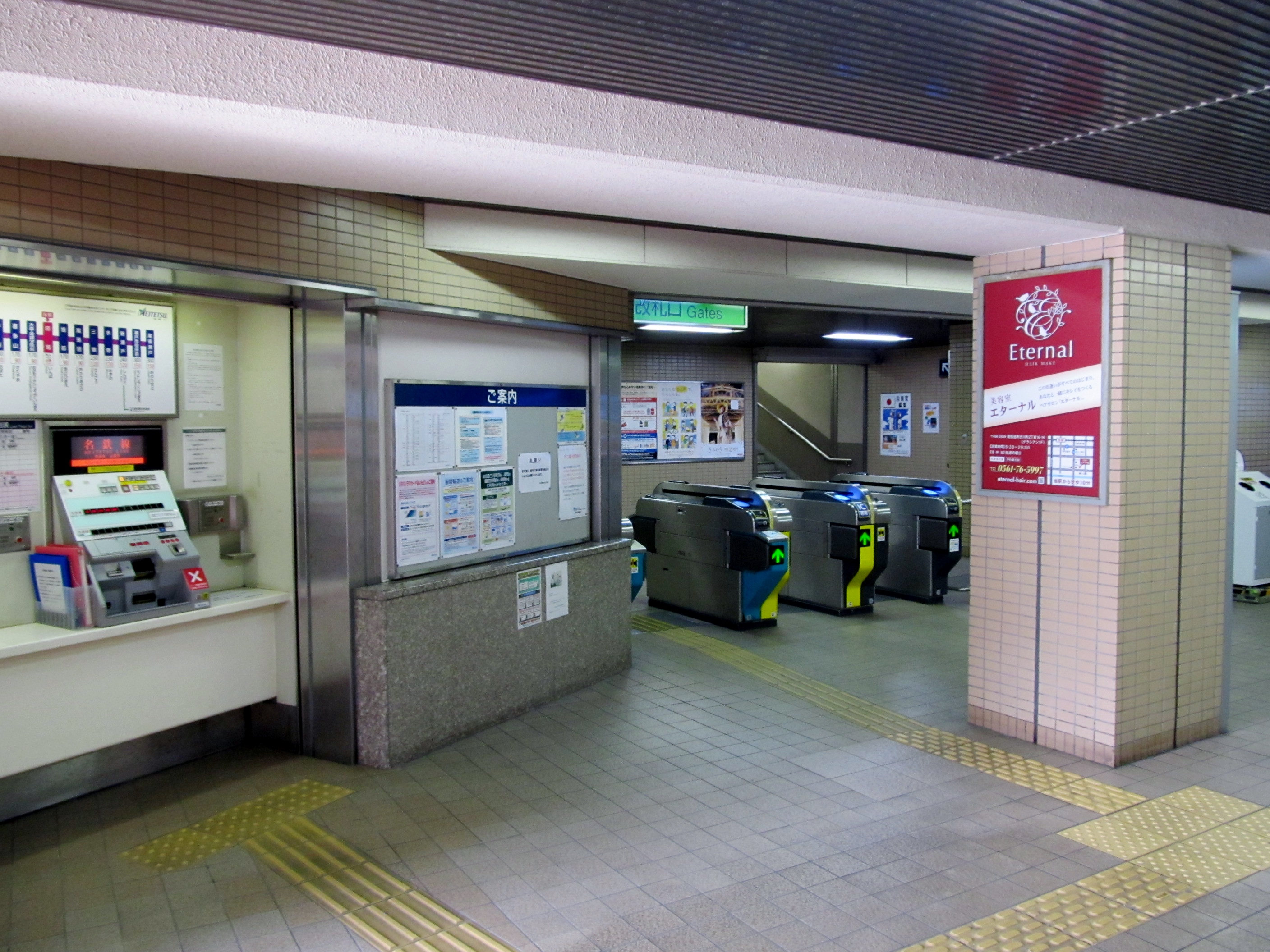 Nagoya Railroad Seto Line Imba Station Ticket Gate